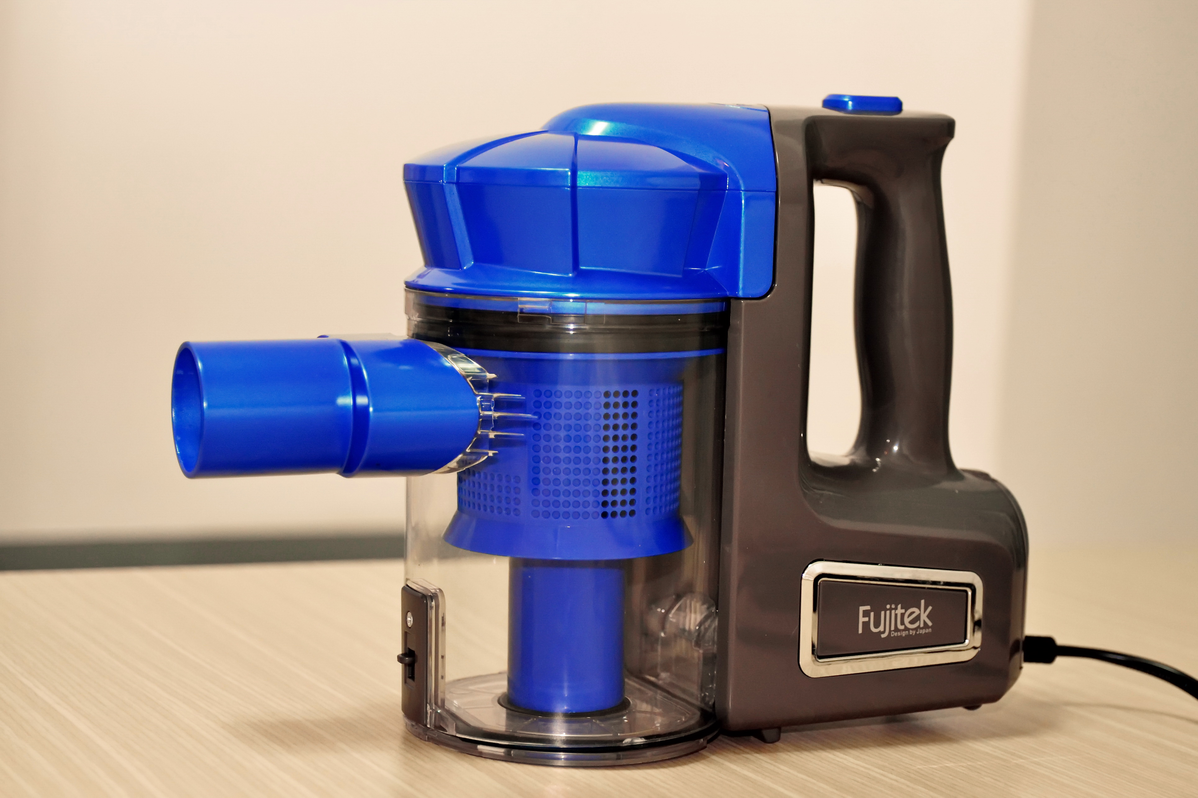 The body of a handheld cyclone vacuum cleaner (Fujitek FT-VC301)